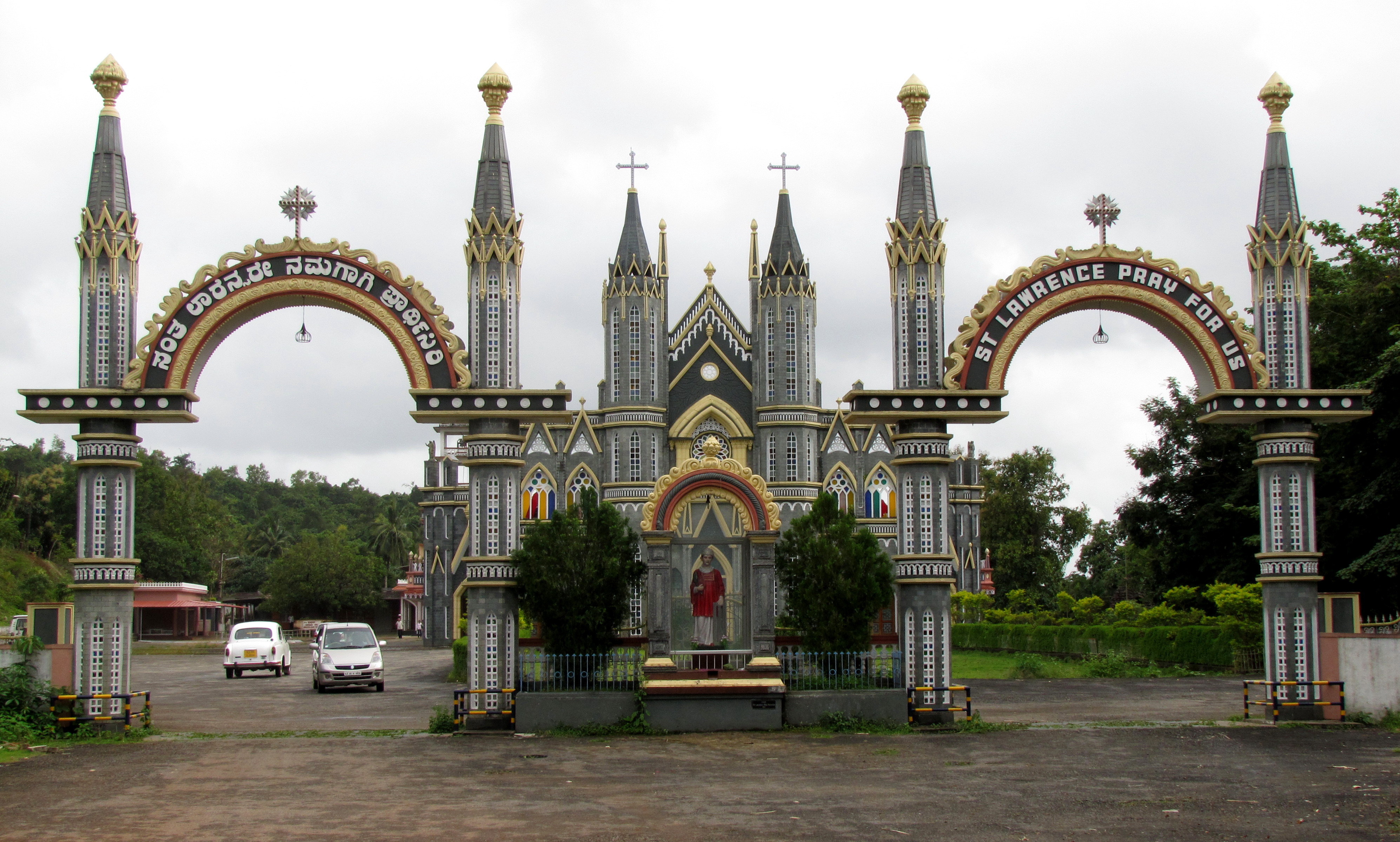 St. Lawrance Shrine or Attur Church Entrance. The Twin gates in front of the church, built in 1999, in line with the Tower further enhances the beauty of the Holy Place.